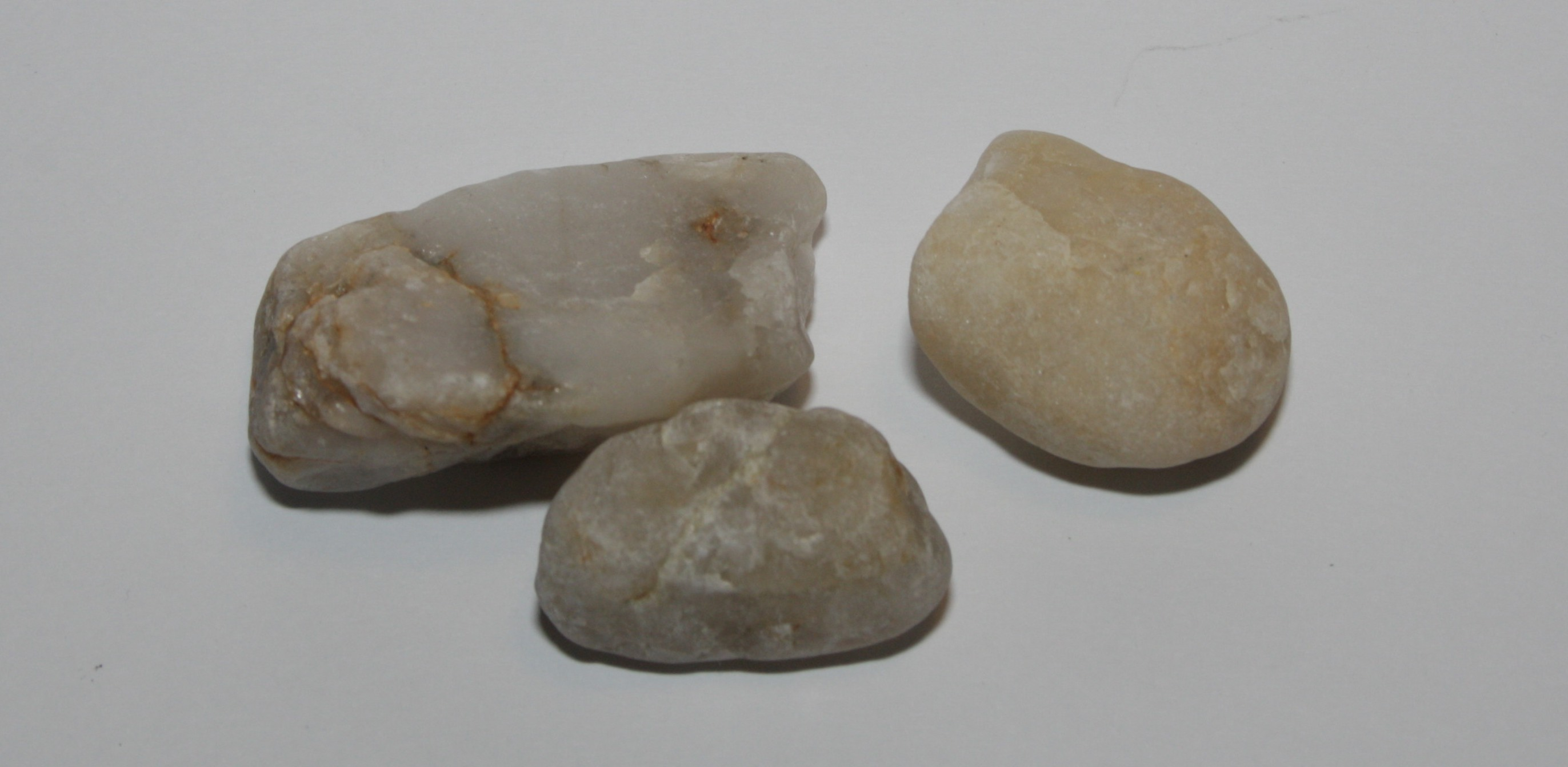 Ordinary Quartz.